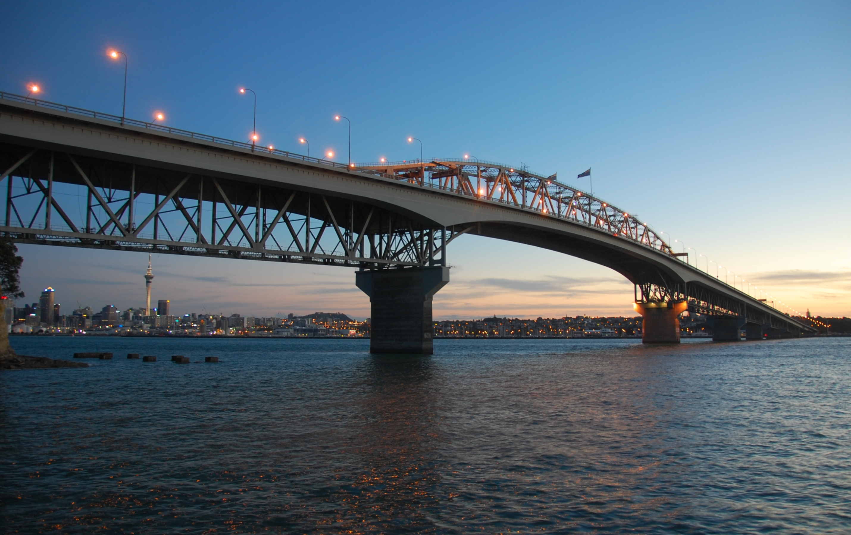 Auckland Harbour Bridge at sunset